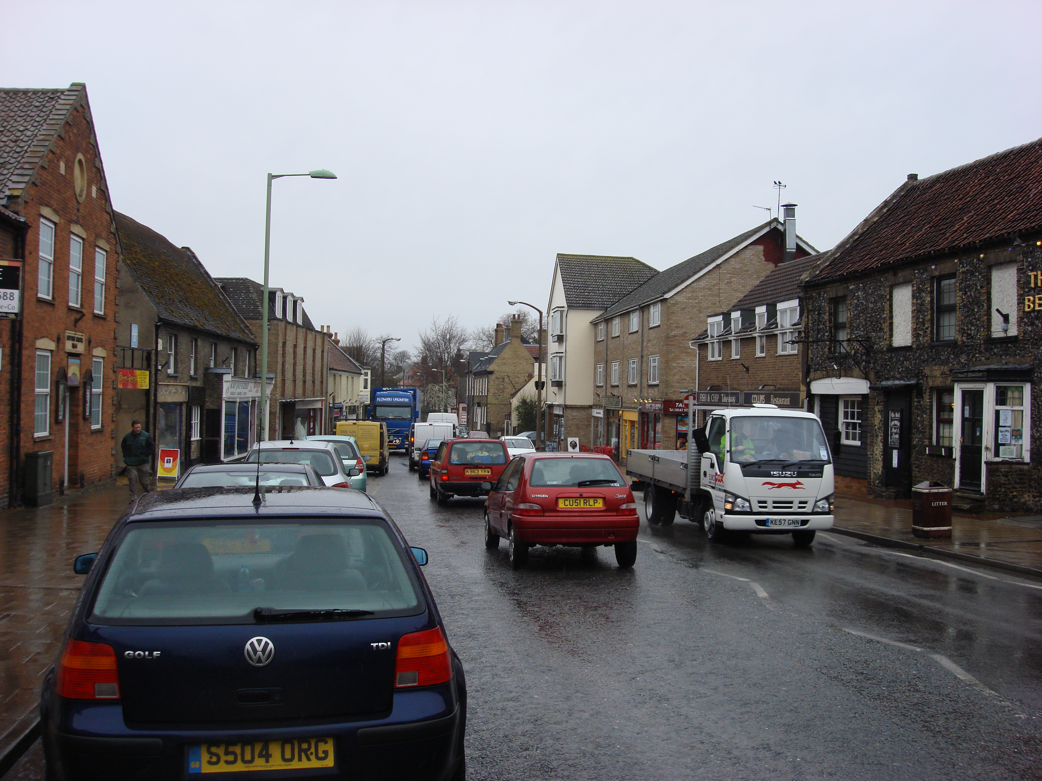 High Street, Brandon, Suffolk